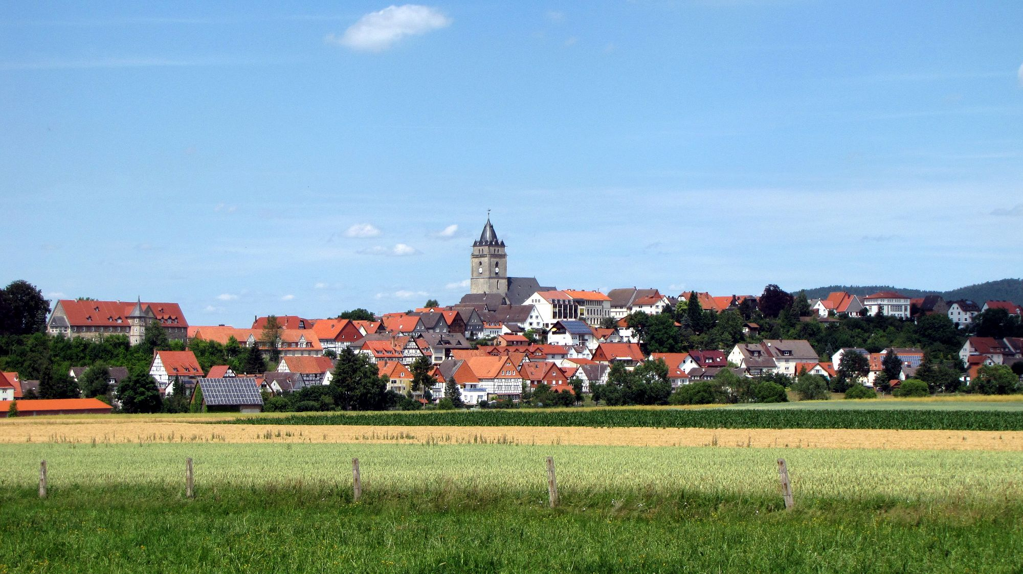 Germany / North Hesse / view to Wolfhagen